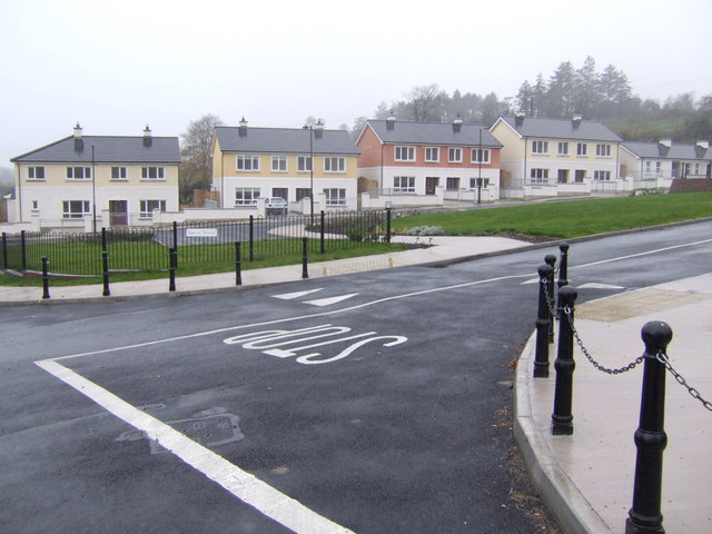 New housing at Corlat, Co. Monaghan Part of the explosion in building in the Irish Republic; these are at the social/affordable end of the market.